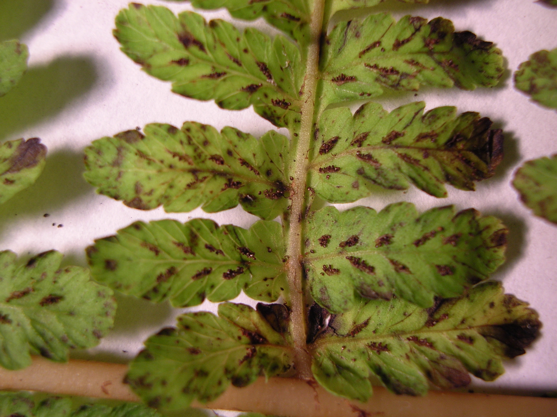 Diplazium sandwichianum (pinnules showing sori). Location: Maui, Makawao Forest Reserve